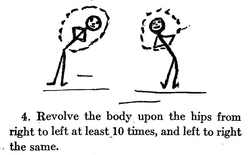 Illustration from Diet and health, with key to the calories, by Lulu Hunt Peters, 1873-1930. Chicago, The Reilly and Britton co. [c1918]. Two stick figures with their hands on their hips are moving their hips. Instructions below read: "4. Revolve the body upon the hips from right to left at least 10 times, and left to right the same."